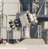 Sadral mounting on the Dupleix (D 641)